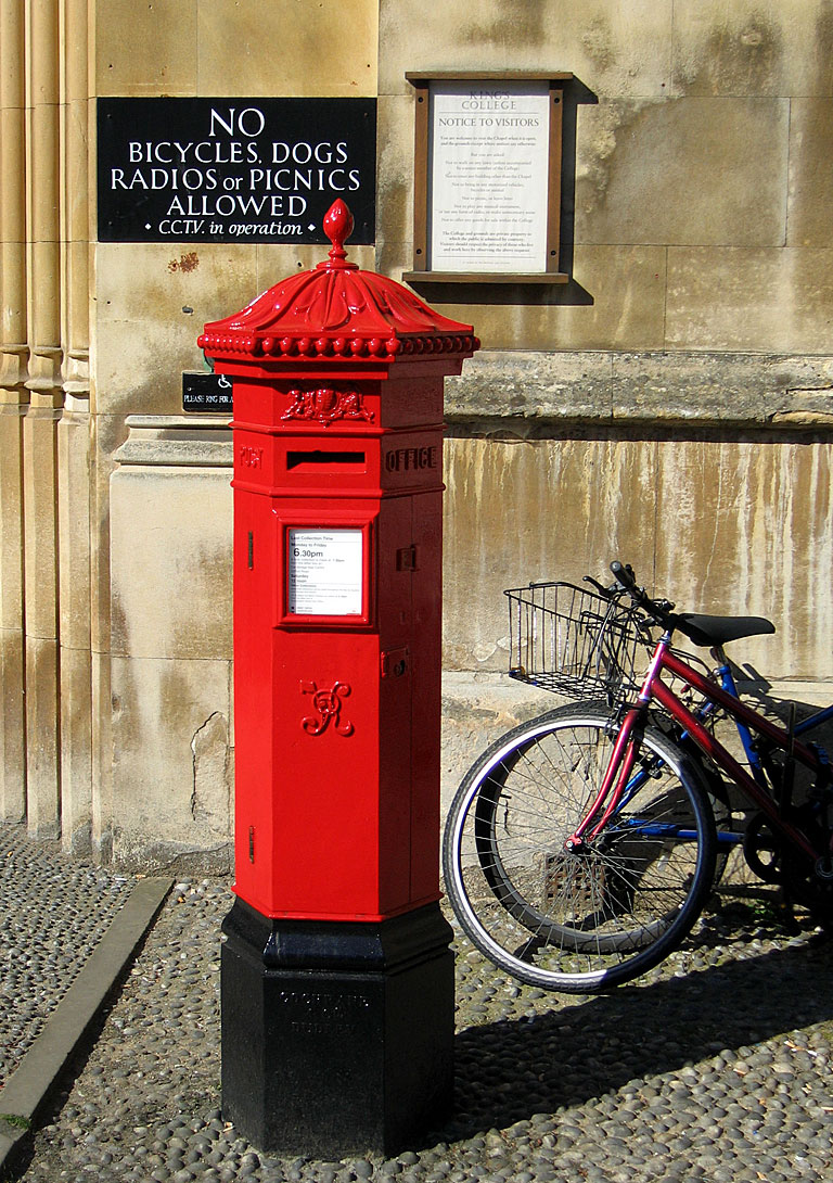 Penfold-type Victorian post box on King's Parade, Cambridge, by the main gate of King's College. This was the standard design for UK Post Office boxes between 1866–1879.